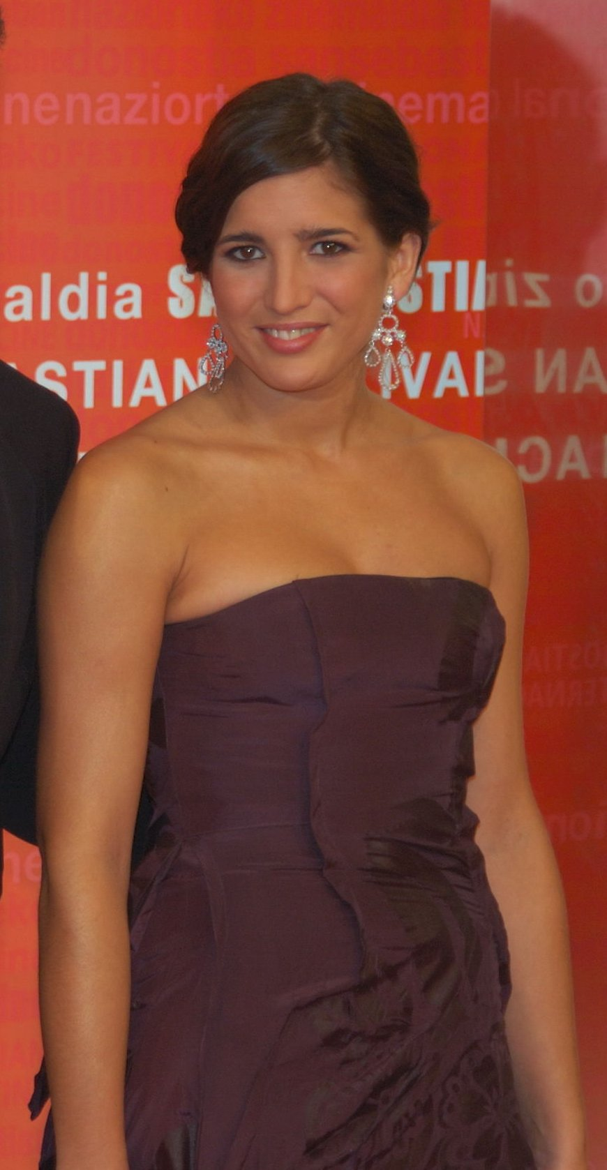 Lucía Jiménez in the San Sebastian International Film Festival 2006